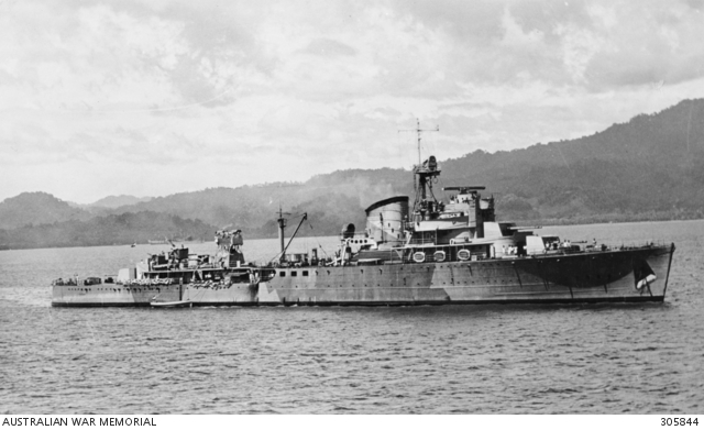 NETHERLANDS EAST INDIES. C.1941-02. STARBOARD SIDE VIEW OF THE DUTCH FLOTILLA CRUISER TROMP PRIOR TO THE BADUNG STRAIT ACTION IN WHICH SHE WAS SERIOUSLY DAMAGED. SHE WEARS A SPLINTER TYPE CAMOUFLAGE SCHEME, APPARENTLY OF TWO SHADES OF GREY, COMMON TO DUTCH SHIPS INVOLVED IN THE DEFENCE OF THE NETHERLANDS EAST INDIES. NOTE THE SEARCHLIGHT POSITION ON THE FOREMAST. HER FLOATPLANE HAS BEEN LANDED AS HAS HER PORT SAMPSON POST. NOTE THE PROMINENT RANGEFINDER ABOVE THE BRIDGE. ON THE DECKHOUSE AFT ARE TWIN BOFORS 40 MM AA GUNS ON TRIAXIALLY STABILISED HAZEMEYER MOUNTINGS WHICH WERE VERY ADVANCED FOR THE PERIOD. (NAVAL HISTORICAL COLLECTION).